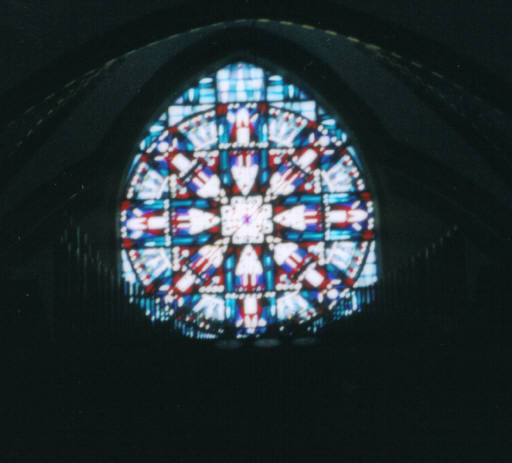 The rose window at the Basilica of St. Francis Xavier, Dyersville, Iowa, United States. When the previous window needed to be replaced, the parish decided on a unique Native American design for the window. The window sits above and behind the organ.